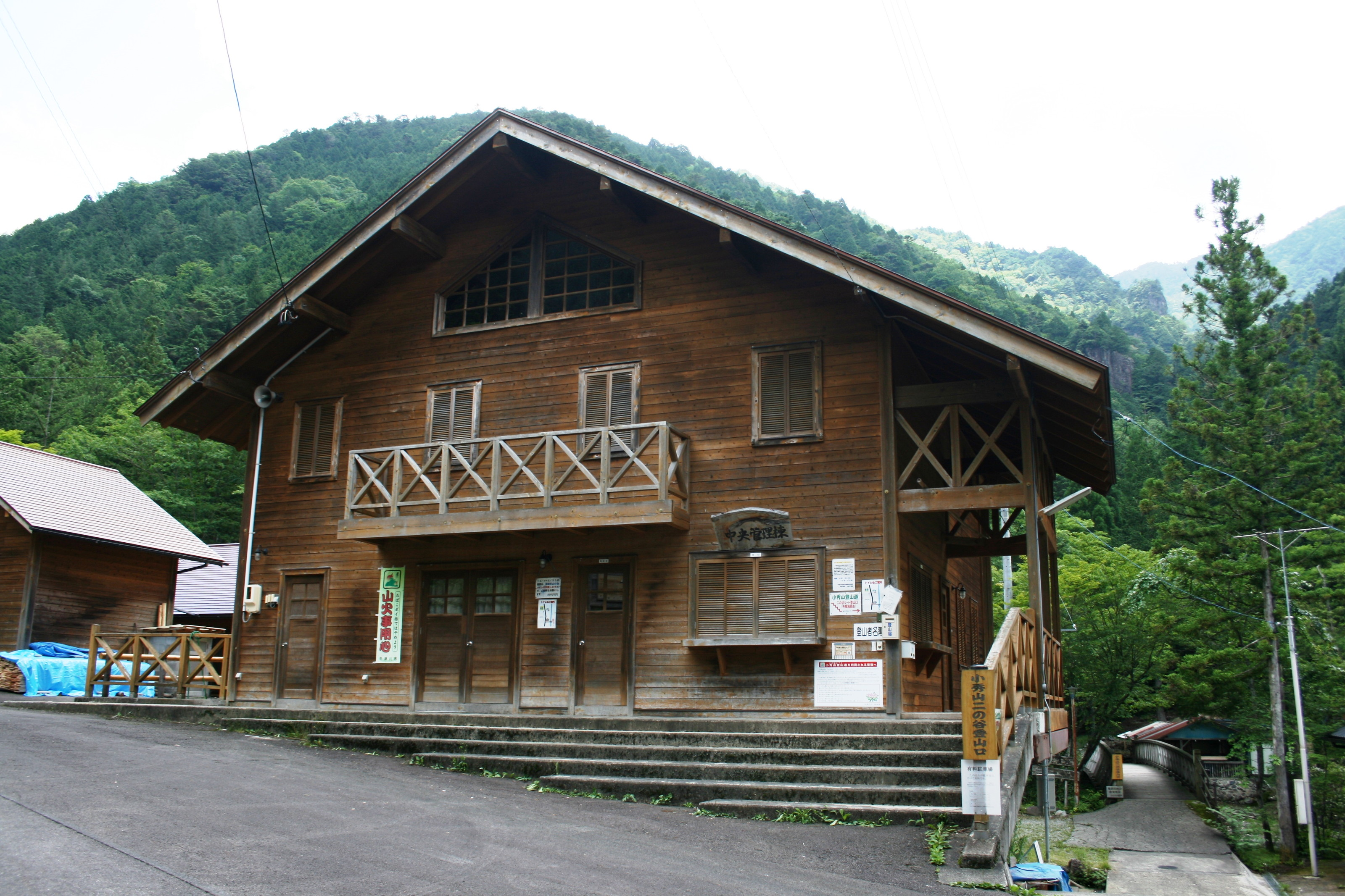 Otomekeikoku camping site office in Otome Ravine(Otome-keikoku), in Kashimo, Nakatsugawa, Gifu prefecture, Japan.